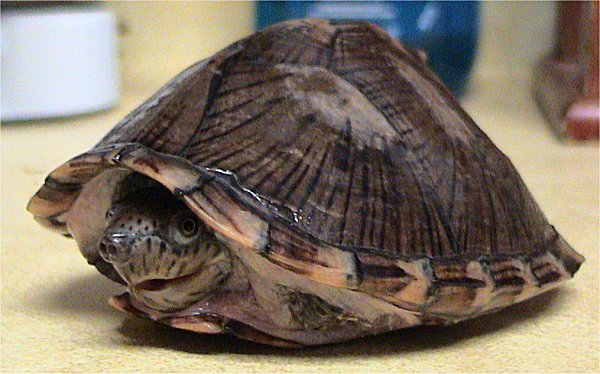 Sternotherus carinatus. Animal courtesy of Austin Reptile Service.